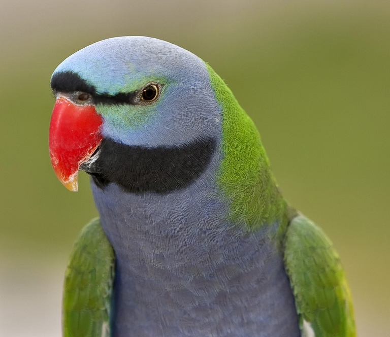 An adult male Derbyan Parakeet at Shenlong Eco Park, People's Republic of China.